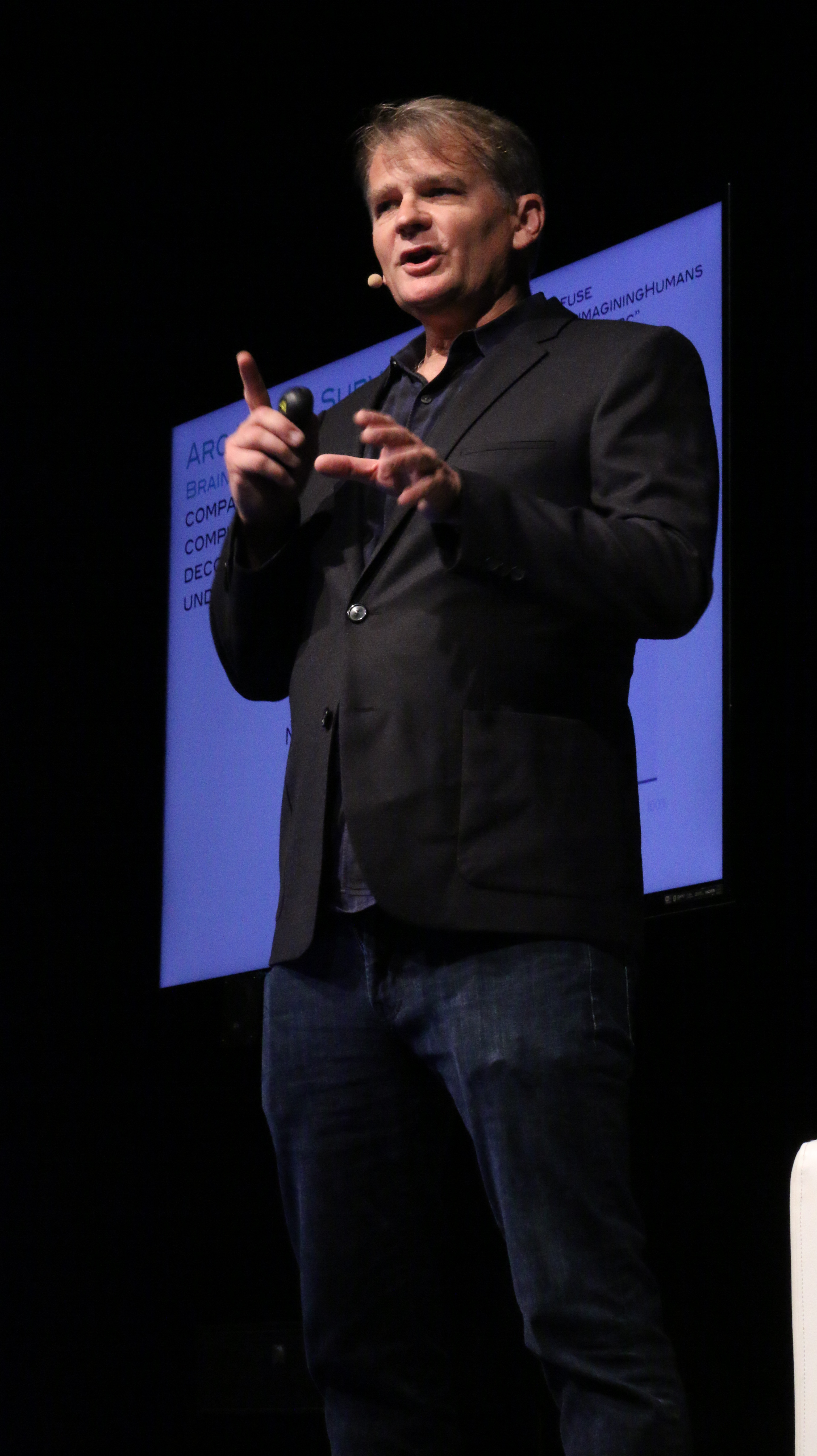 David Ewing Duncan hosting the Arc Fusion Reimagining Humans Summit in San Francisco in 2016.